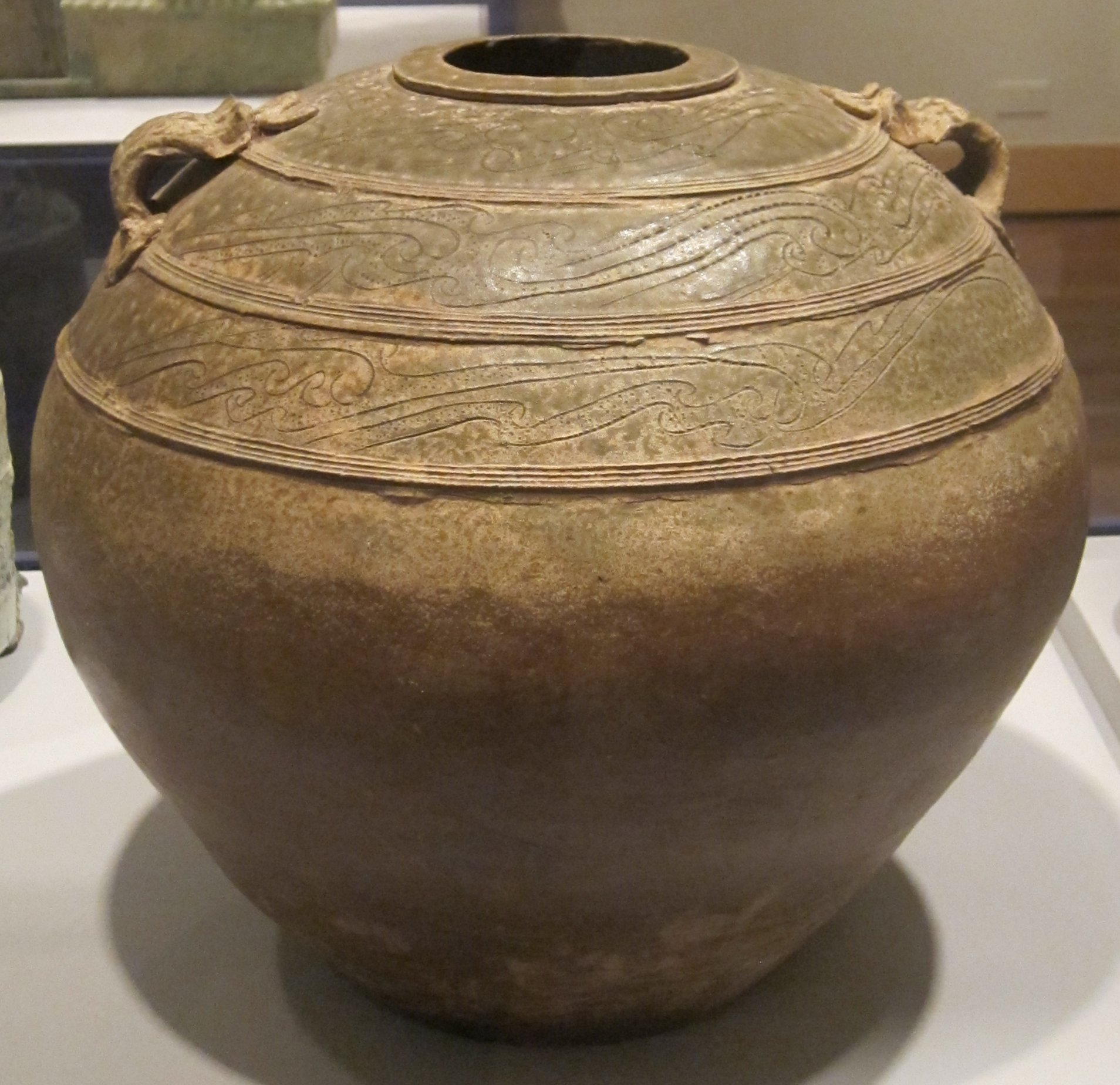 Jar, China, Han dynasty (206 BCE – 220 CE), stoneware with glaze, Honolulu Museum of Art